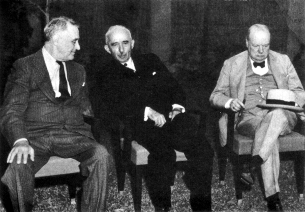 Roosevelt, İnönü and Churchill at the Second Cairo Conference